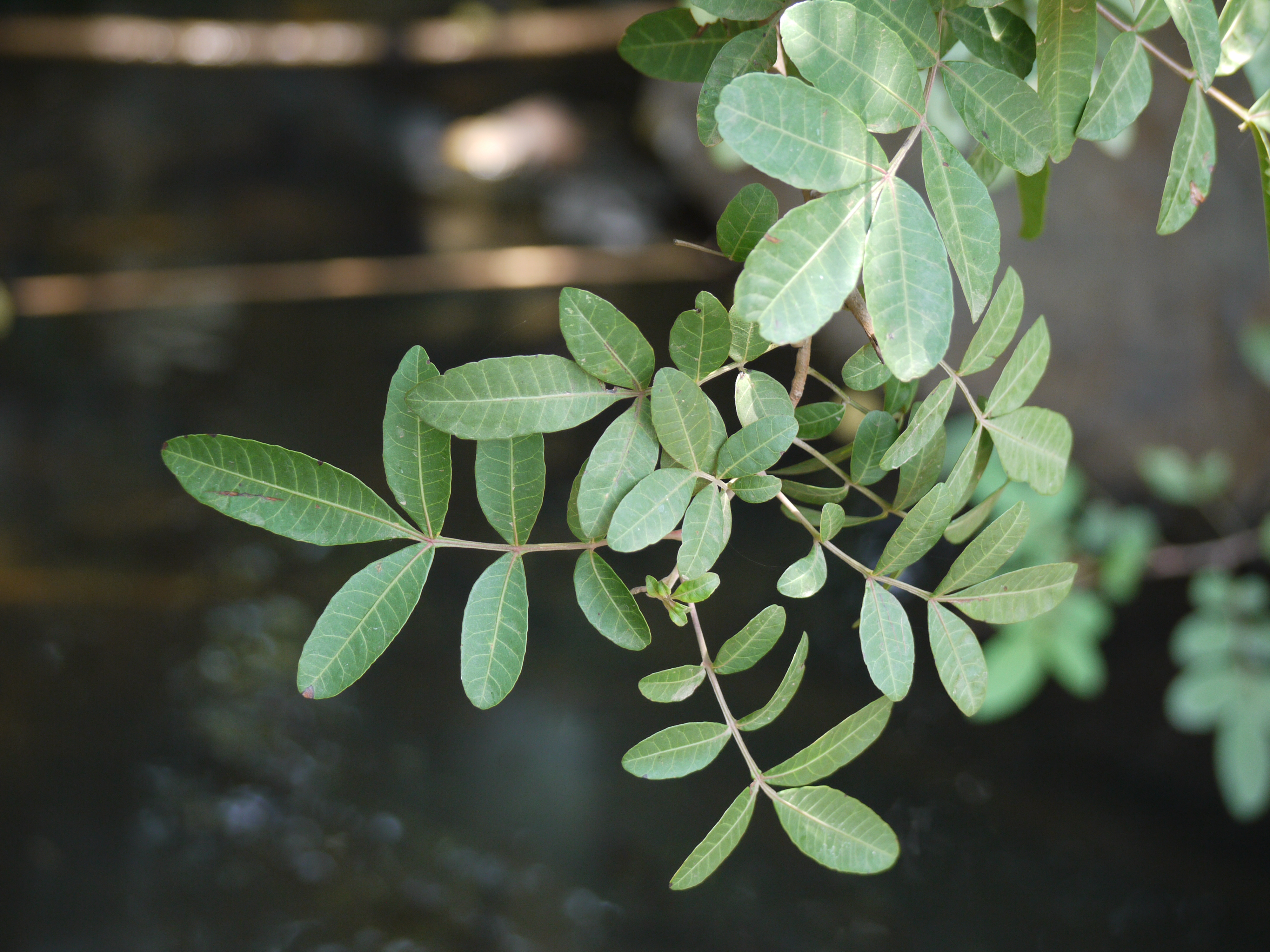 Anacardiaceae (cashew family) » Schinus terebinthifolius SKY-nus -- Greek name for Pistacia (the mastic tree, another genus) ter-ee-binth-ee-FOH-lee-us -- leaves like the Pistacia terebinthus (turpentine tree) commonly known as: aroeira, Bahamian holly (USA), Brazilian pepper, christmas berry, Florida holly, pepper tree, pink pepper, rose pepper Native to: subtropical and tropical South America References: University of Florida • Floridata • Wikipedia • M.M.P.N.D.